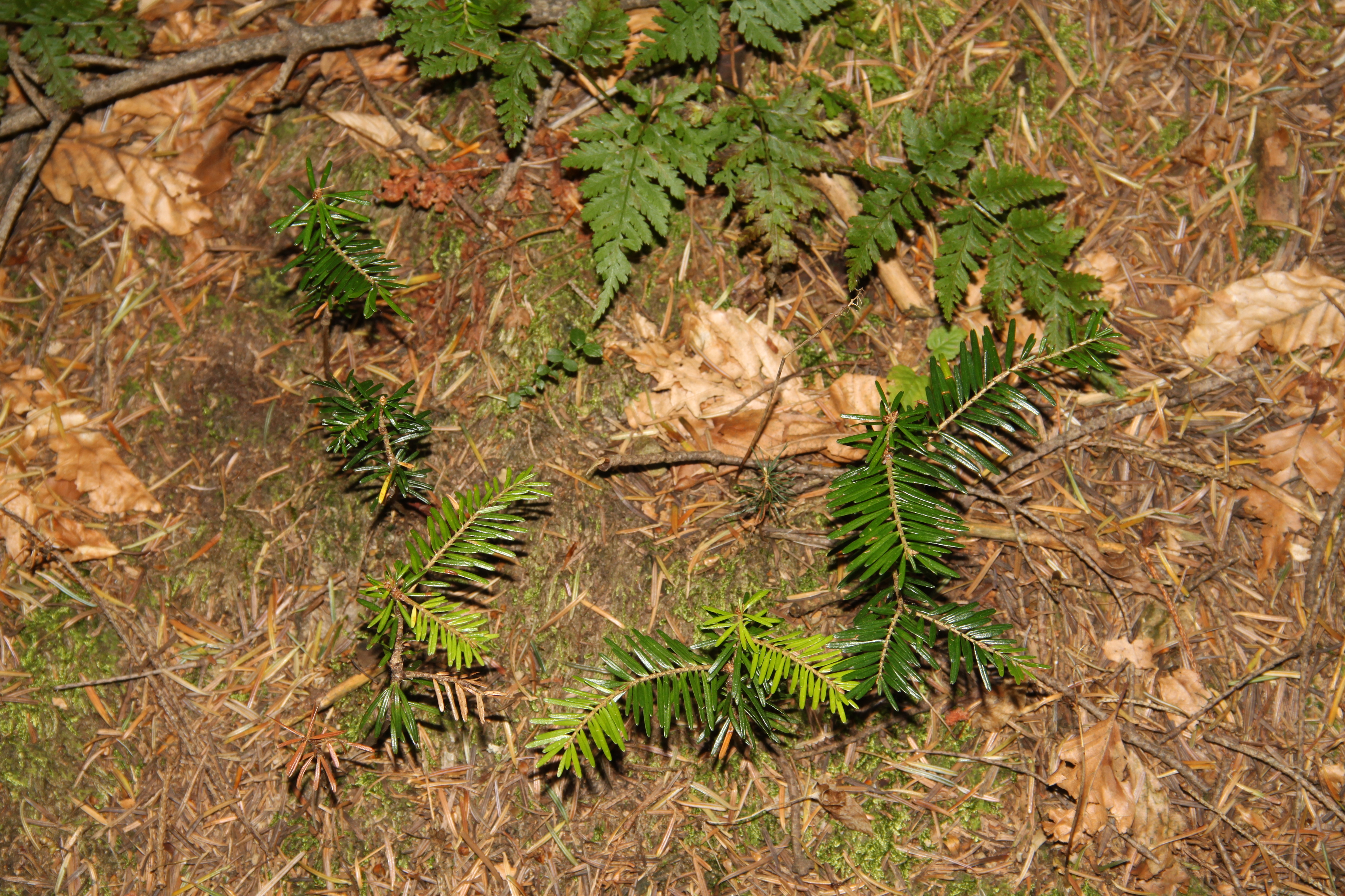 Self-sown Silver Firs (Abies alba) in forest in Beskid Sądecki, Poland